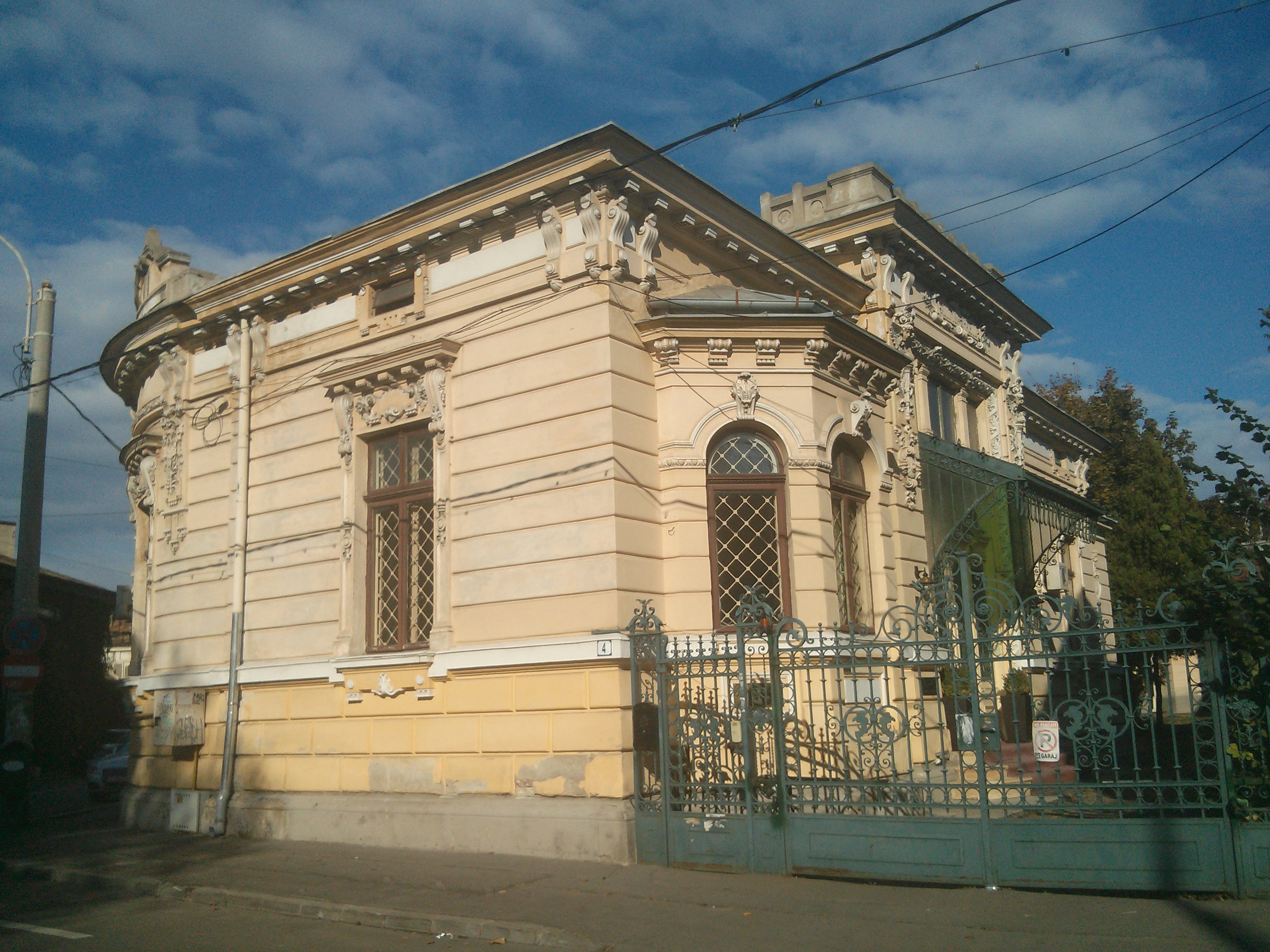 House